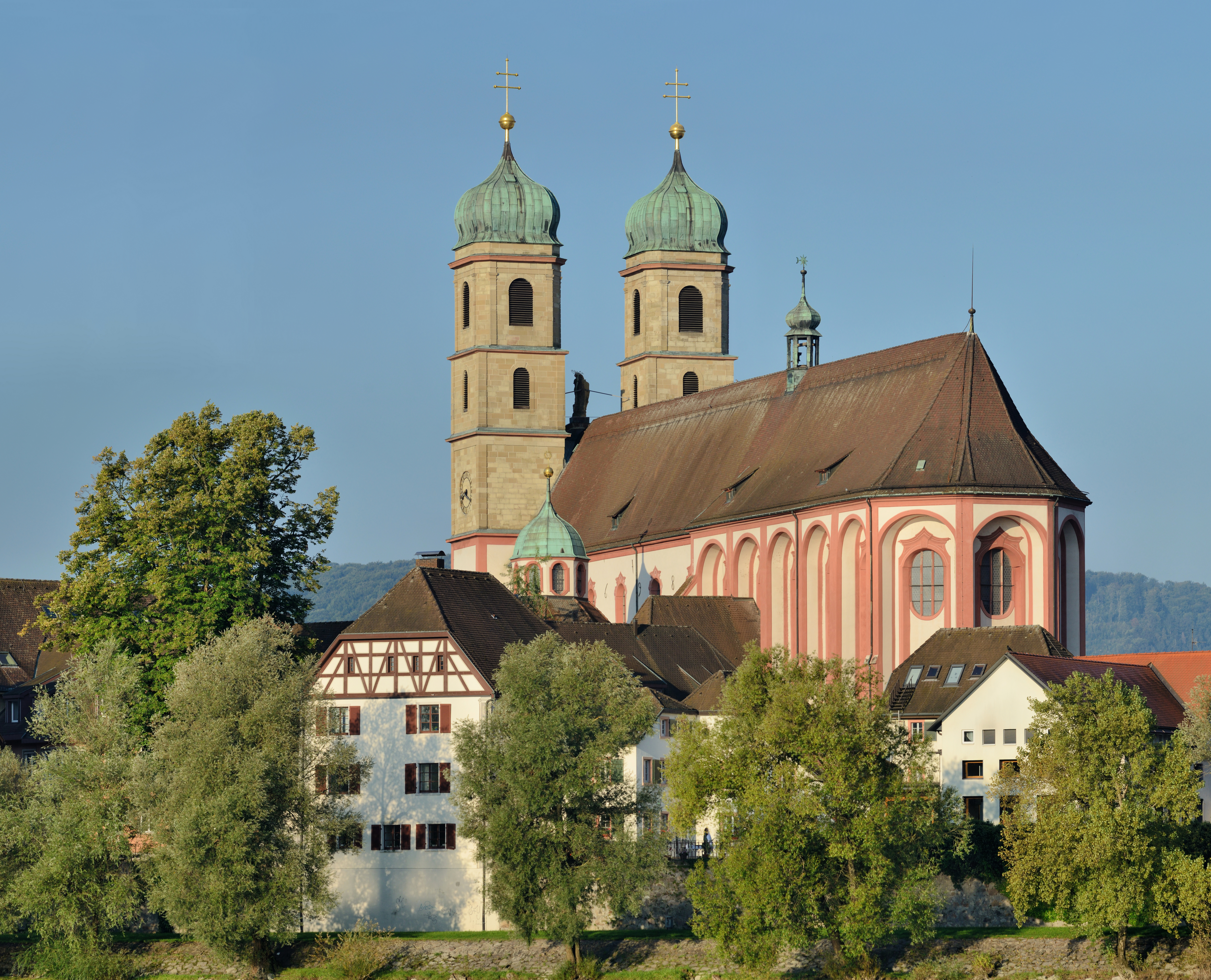 Bad Säckingen: Fridolin minster